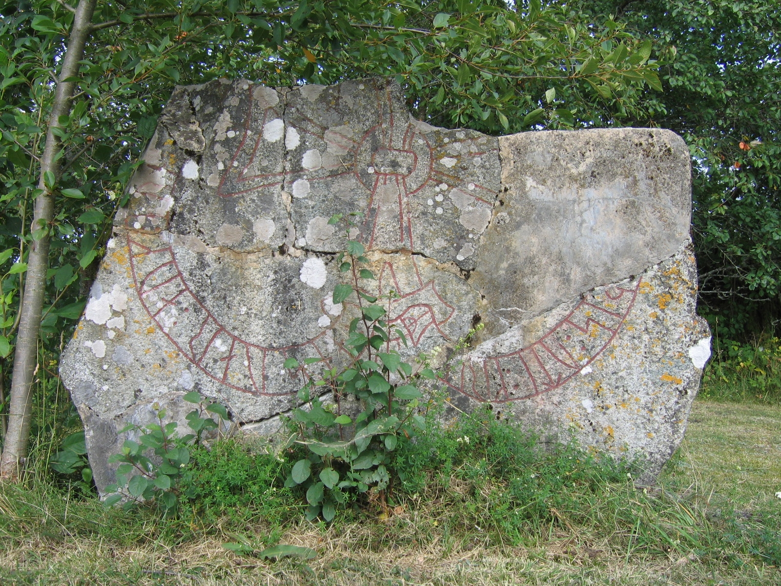 Runestone Sö 85 in the garden of the farm Västerby near Tumbo church, in Södermanland, Sweden.